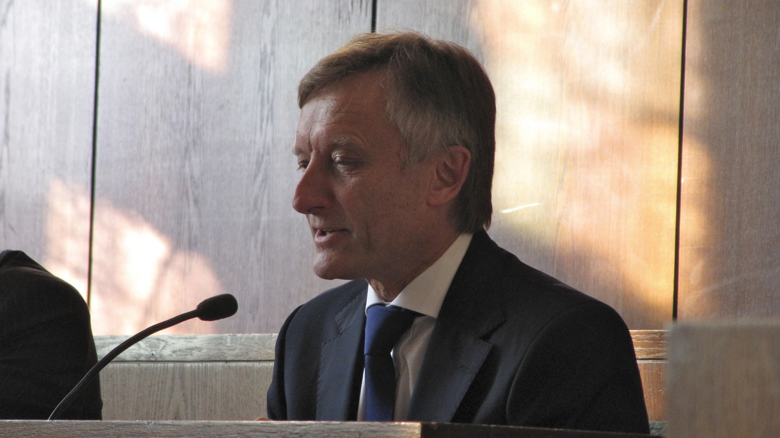 German Ambassador of Poland, dr Marek Prawda, Frankfurt (Oder), 2011–10-22